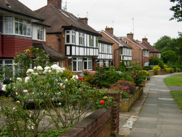 Ashley Walk, Mill Hill Ashley Walk continues beyond here to become Ashley Lane, a bridleway across Hendon Golf Course. This type of semi-detached housing typifies the outer-London boroughs.